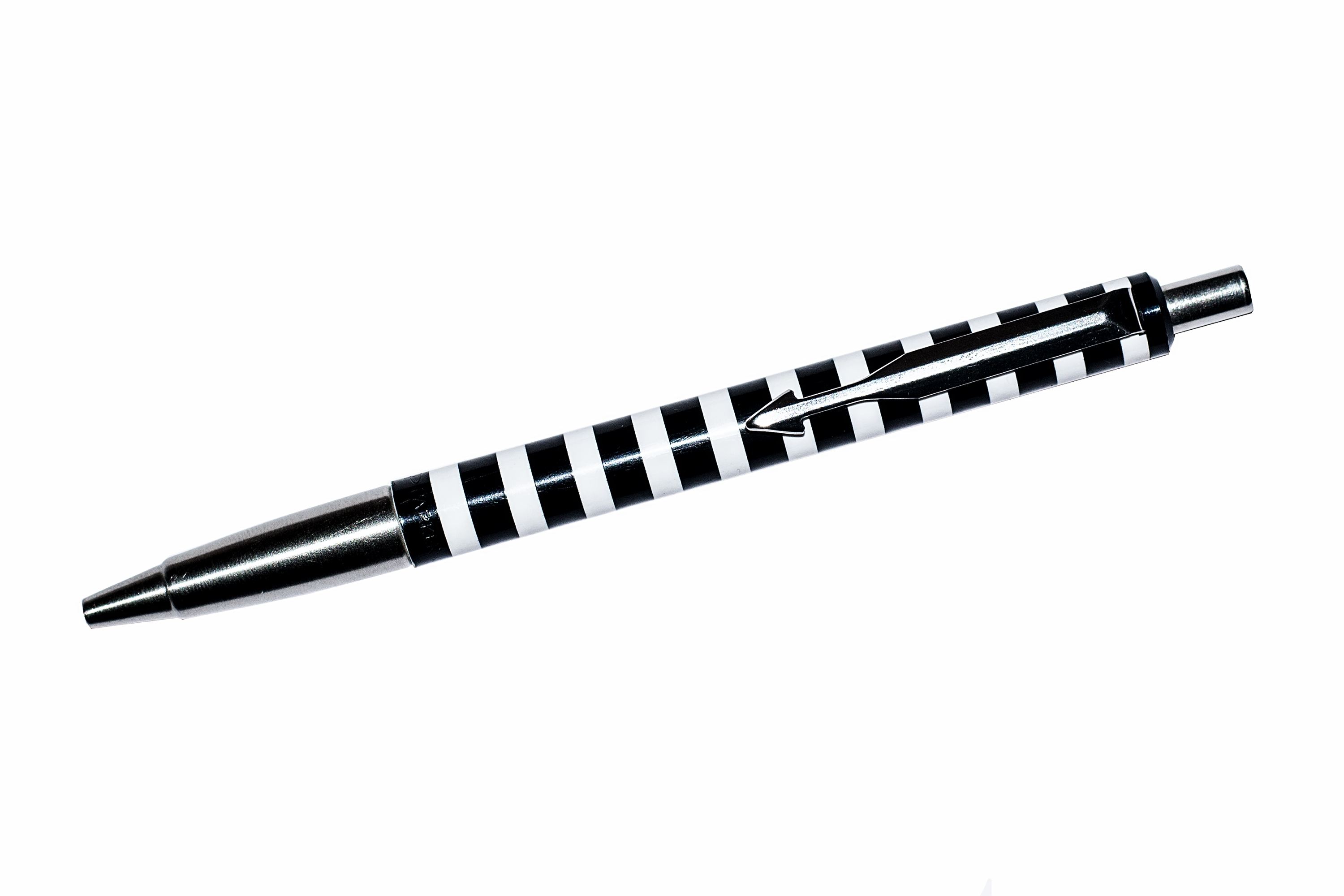 Ballpoint Pen